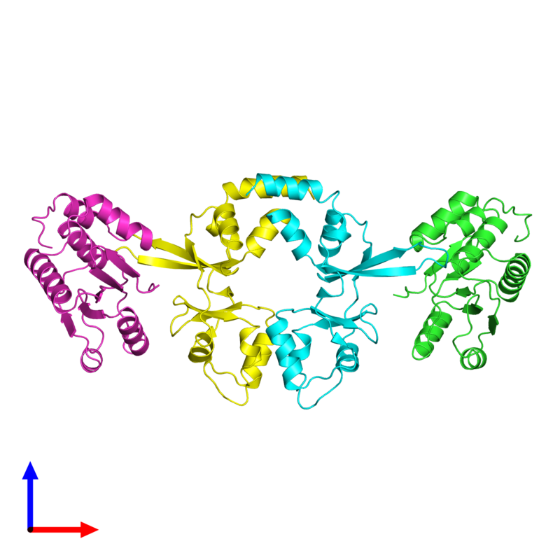 Front view of the molecular complex. Each color represents a different chain